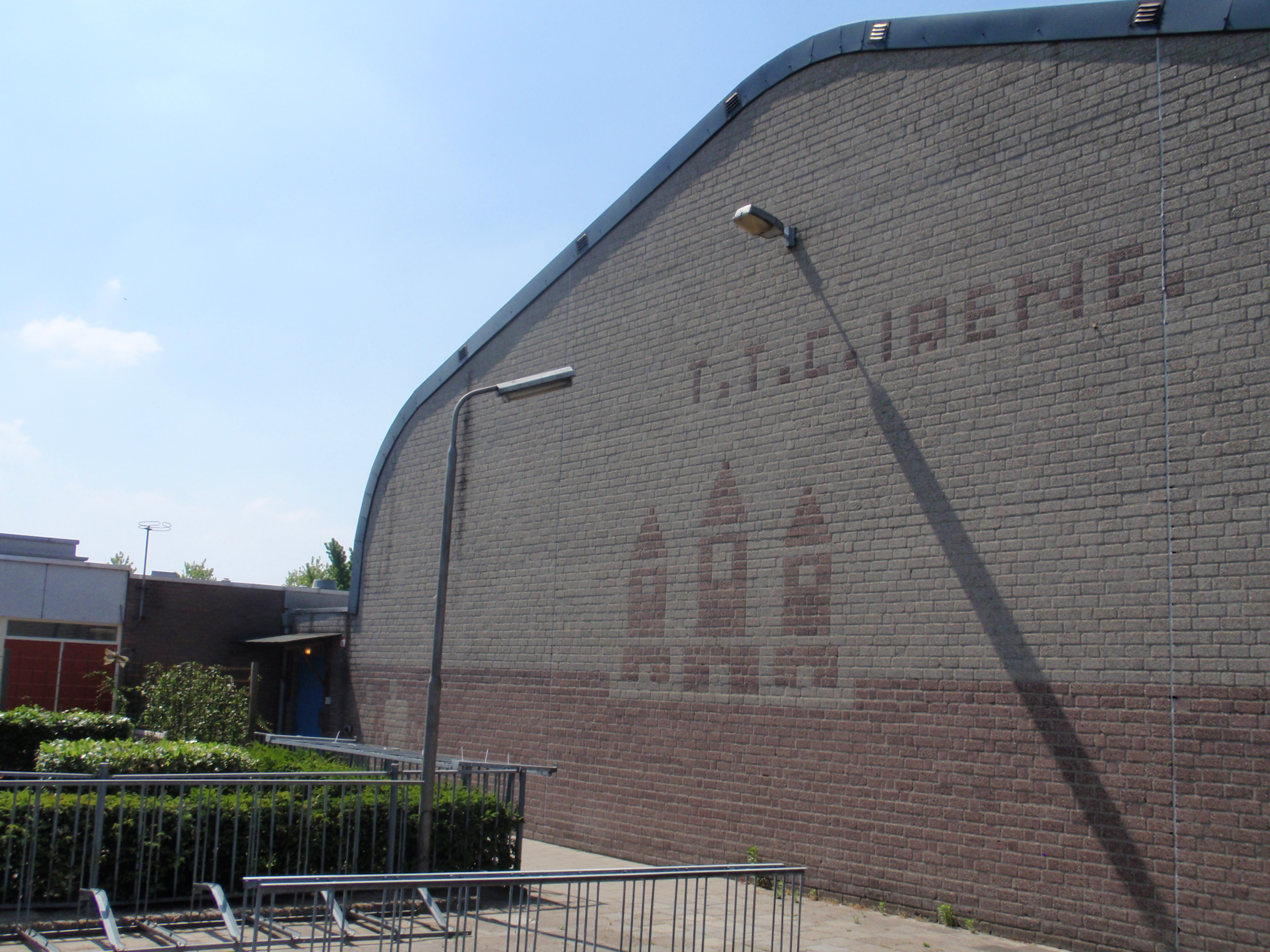 Table Tennis TTC Irene, Tilburg